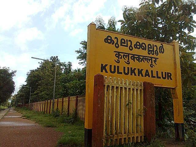 photos taken by jinesh device nokia x3